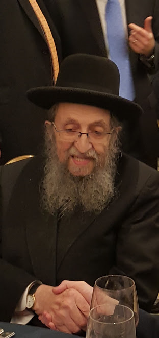 A photo of Rabbi Shmuel Kamenetzky